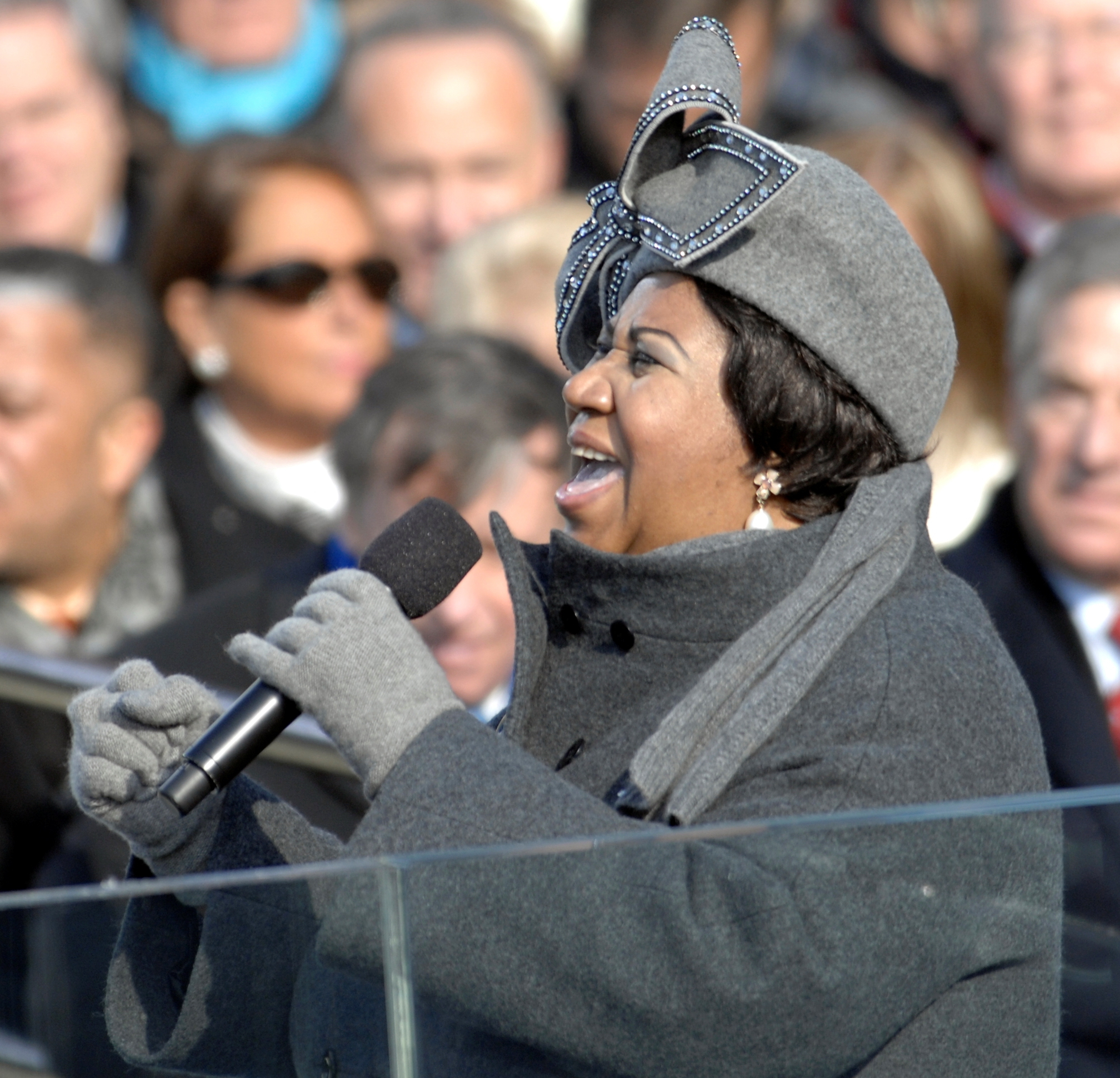 Aretha Franklin sings "My Country 'Tis Of Thee'" at the U.S. Capitol during the 56th presidential inauguration in Washington, D.C., Jan. 20, 2009.